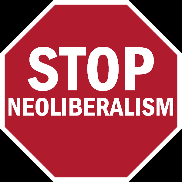 A stop sign symbol with the text "Stop Neoliberalism".